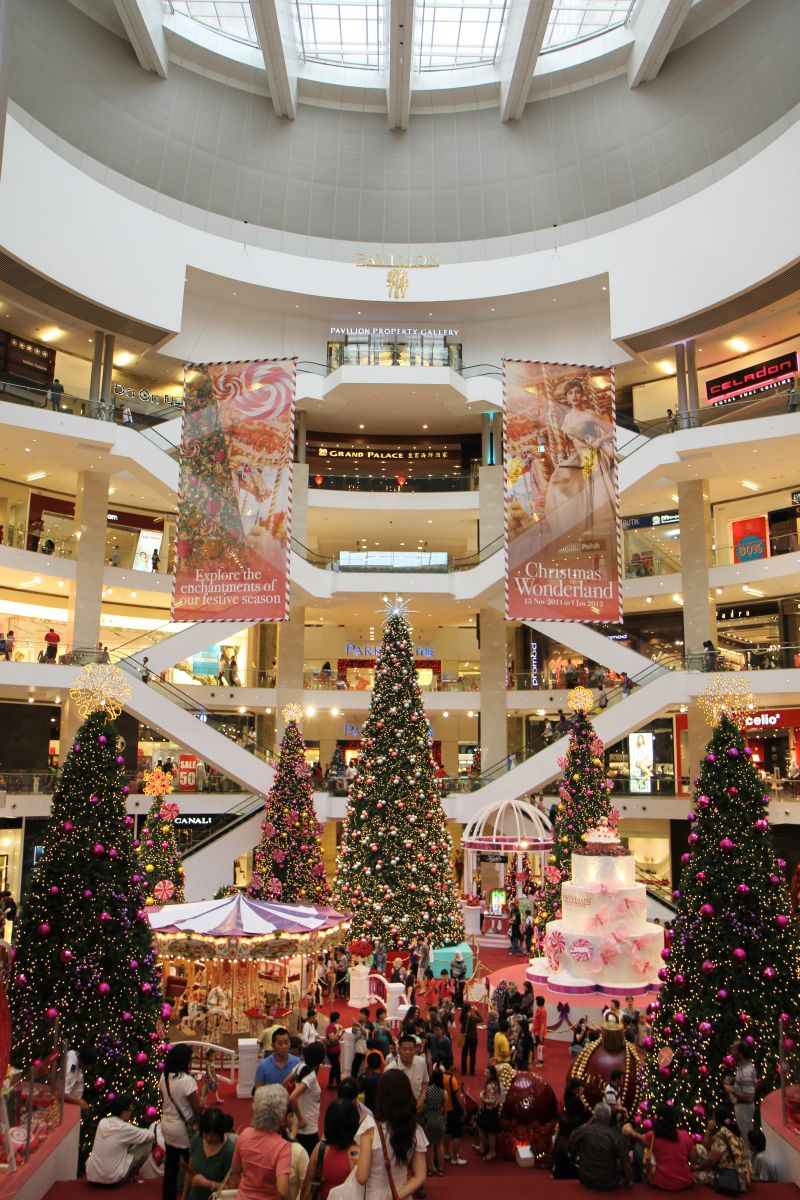 Christmas Decoration at Pavilion Shopping Centre in Kuala Lumpur